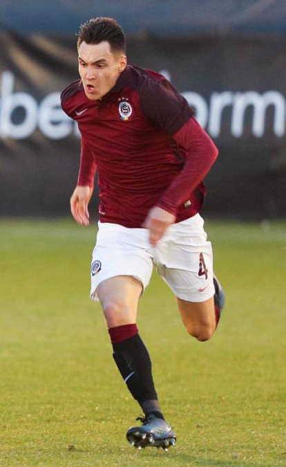 03.02.2017. Испания, Бенидорм, стадион «Гильермо Амор». Вторые «Газпром»-тренировочные сборы в Испании: 3 февраля, контрольный матч «Зенит» — «Спарта».